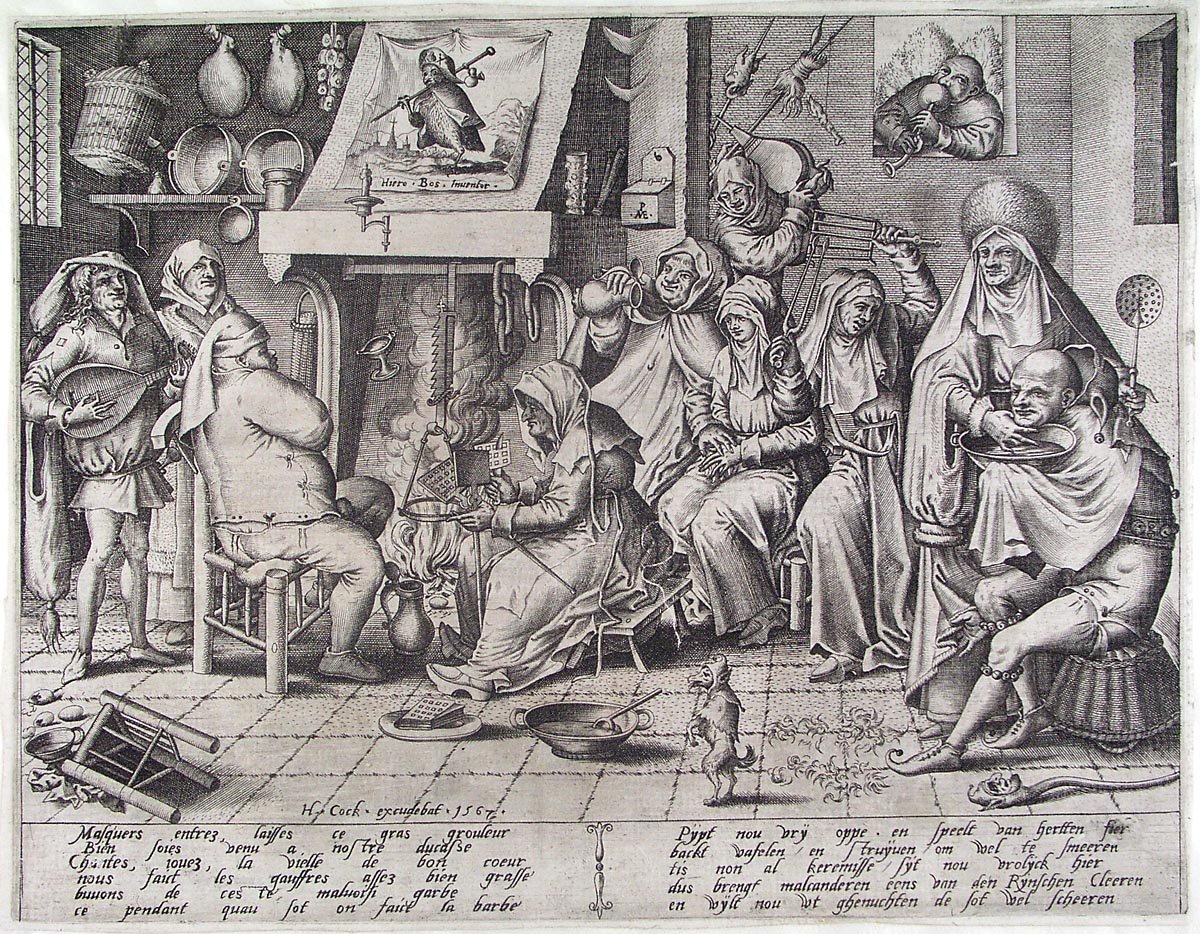 Carnival. Engraving. 195 × 290 mm. Rotterdam, Museum Boijmans Van Beuningen (inv.no. BdH 23959 (PK)).